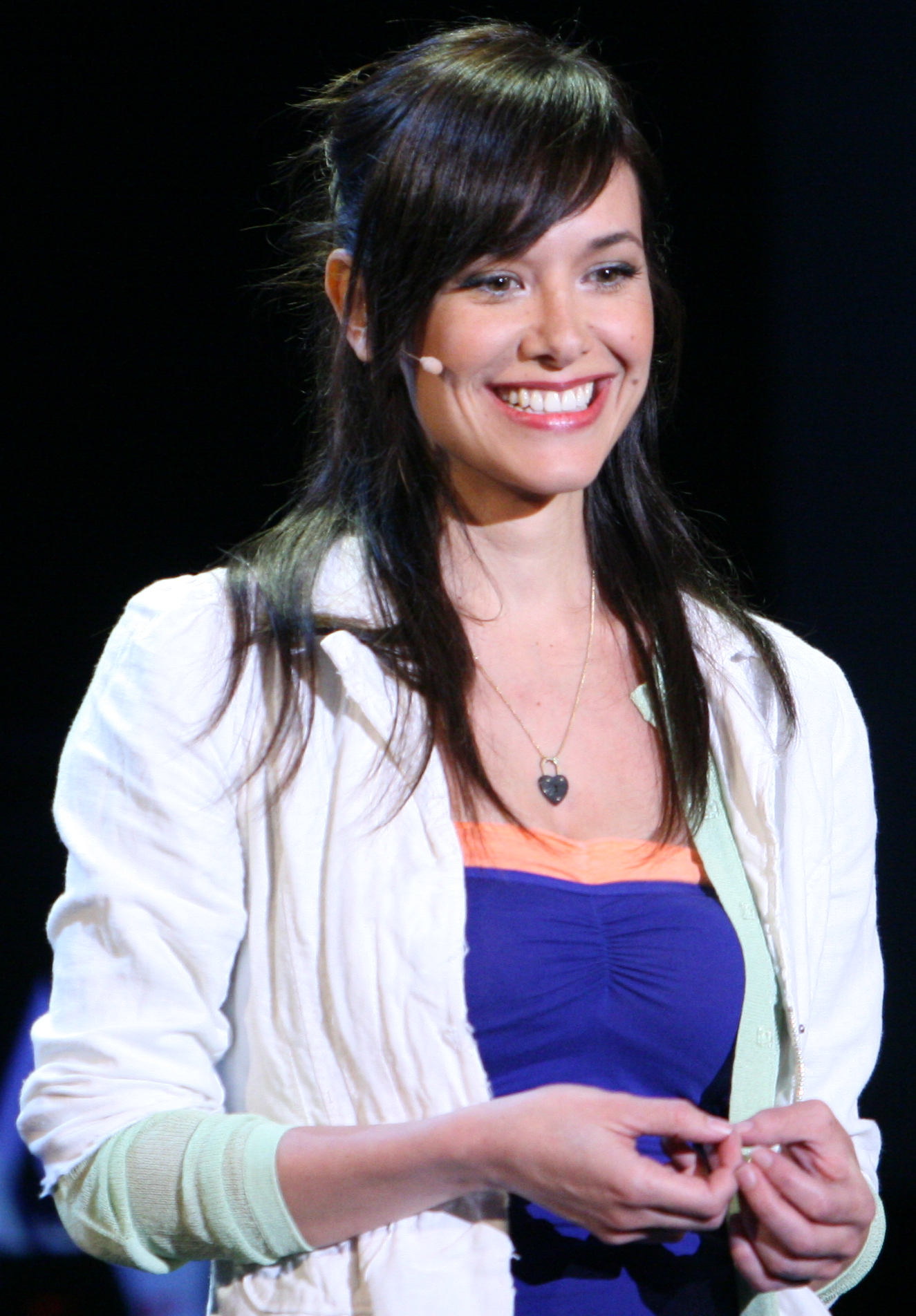 Jade Raymond at the Electronic Entertainment Expo in 2007.